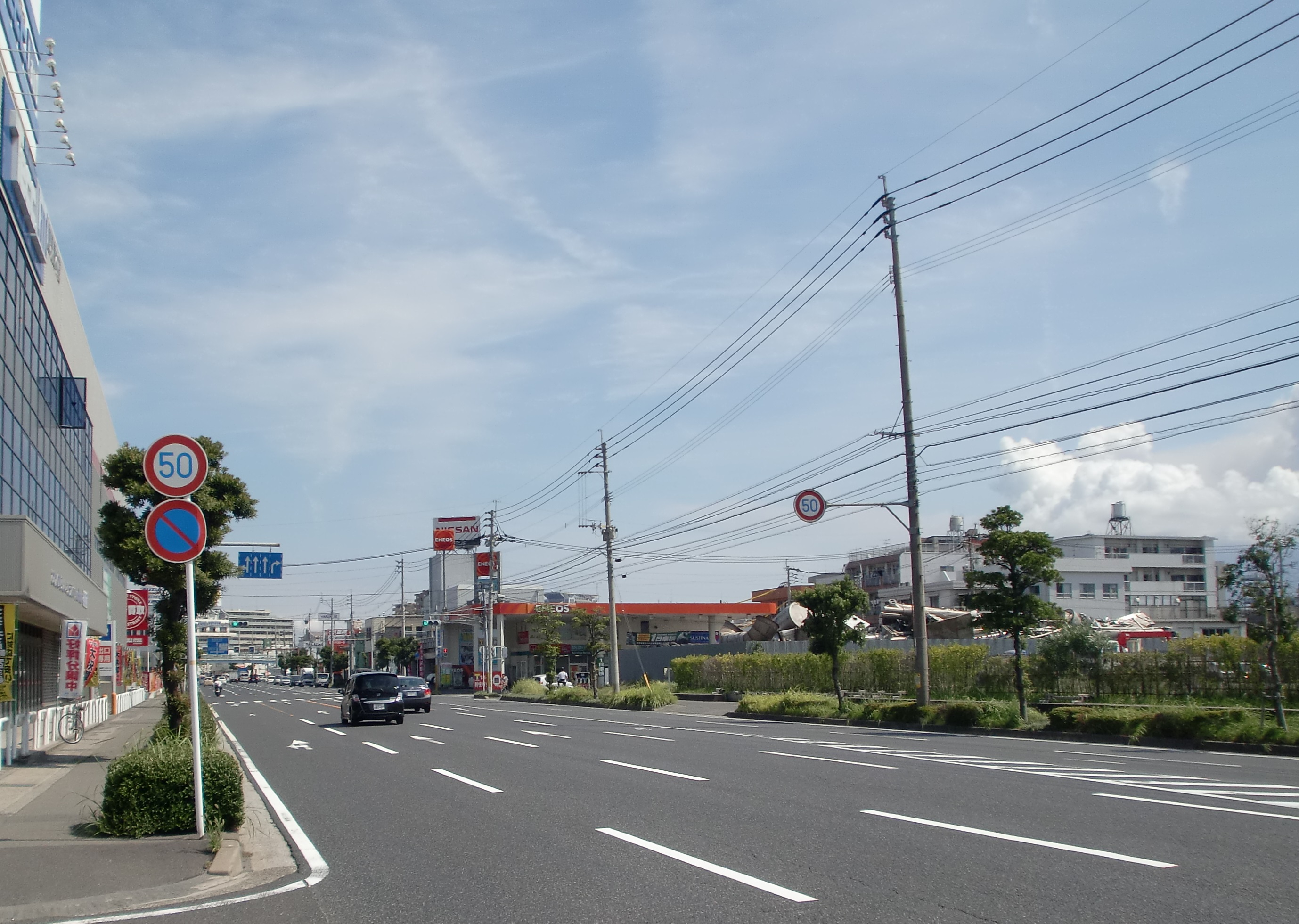 The Kagoshima Prefectural Road Route 217 in Shin'ei-cho, Kagoshima City, view towards Korimoto